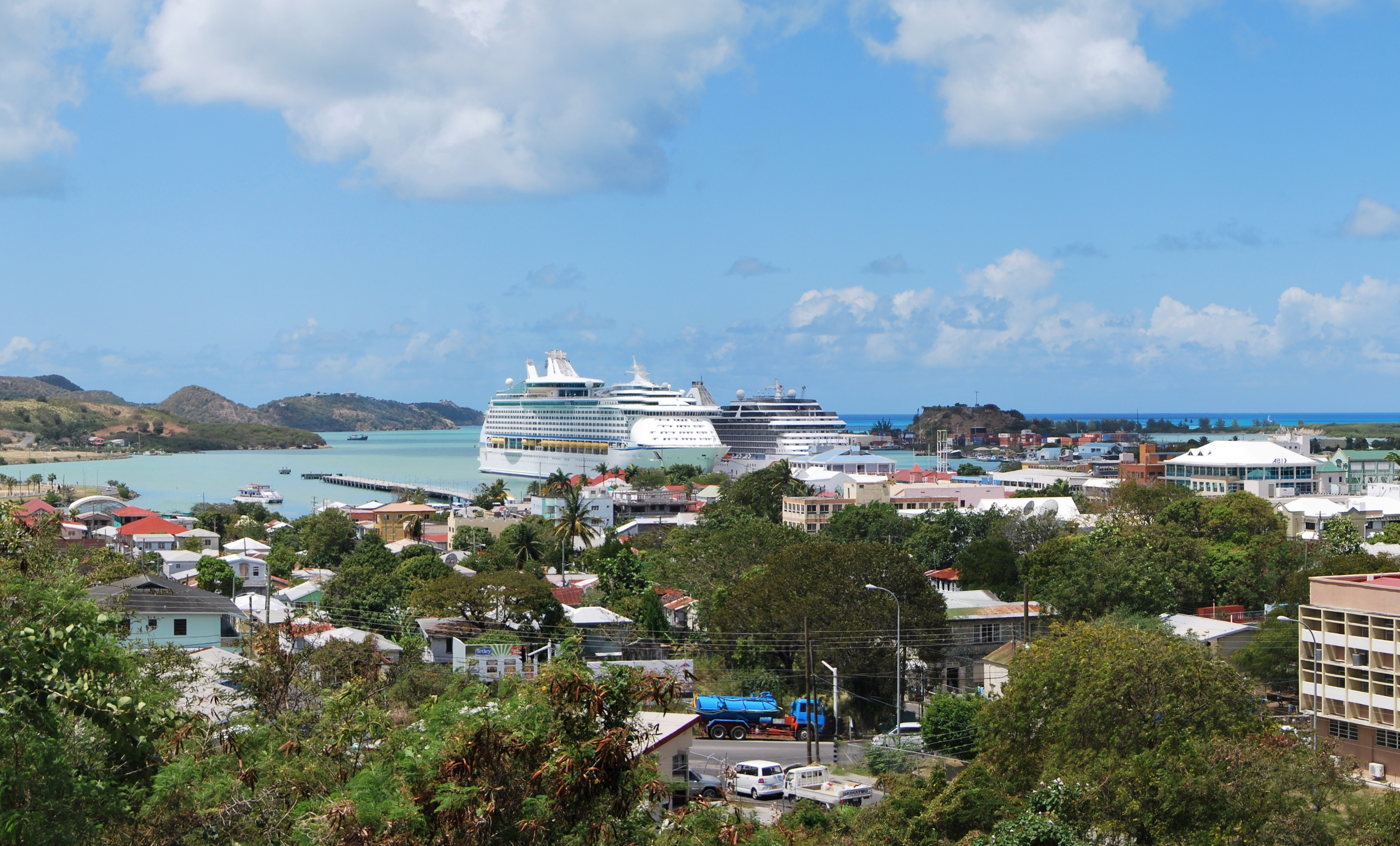 View of downtown St. John's, the capital of Antigua and Barbuda, on the island of Antigua. Taken from Mount St. John's Medical Center.